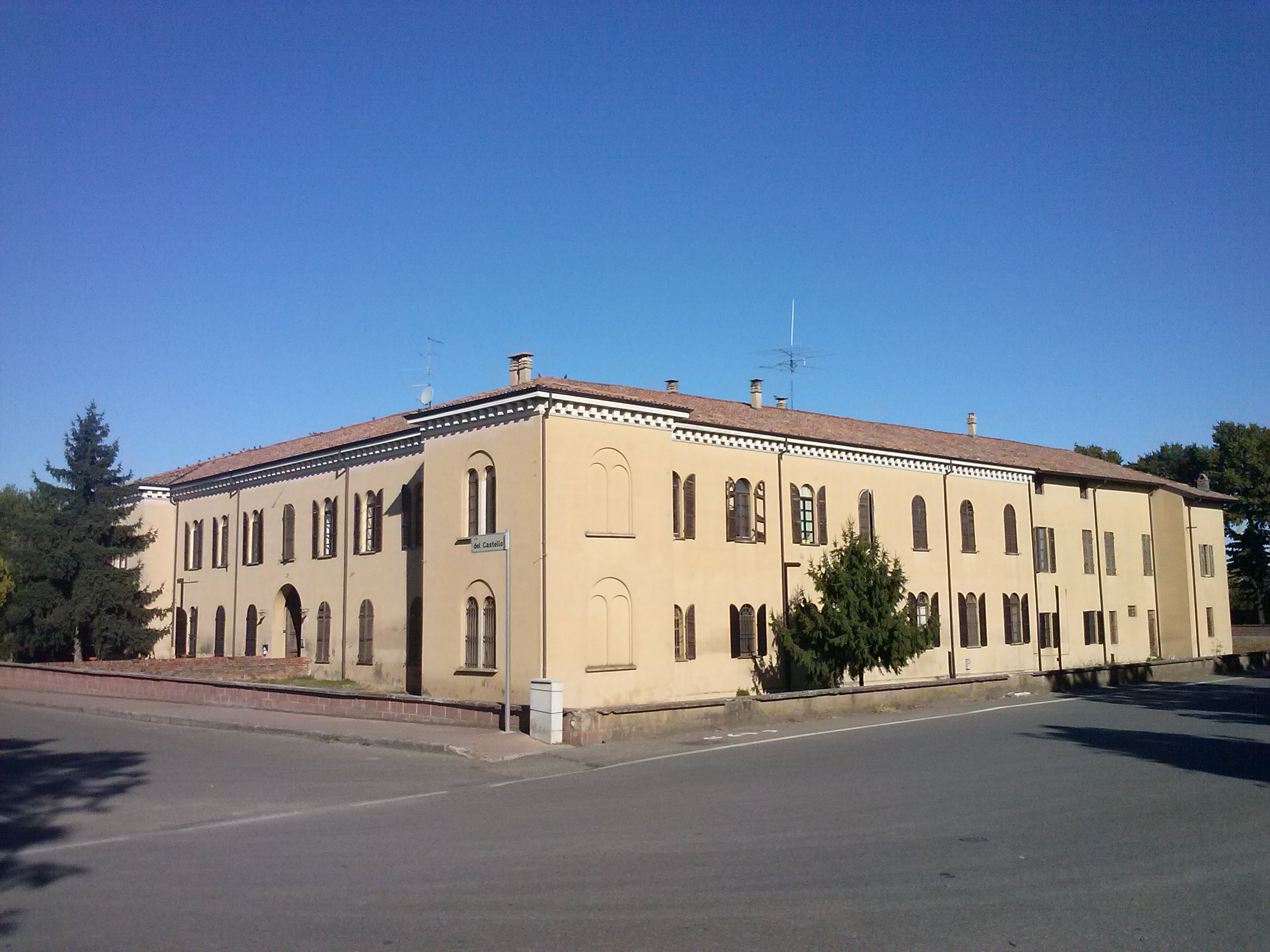 Castle of Gossolengo (Piacenza, Italy)